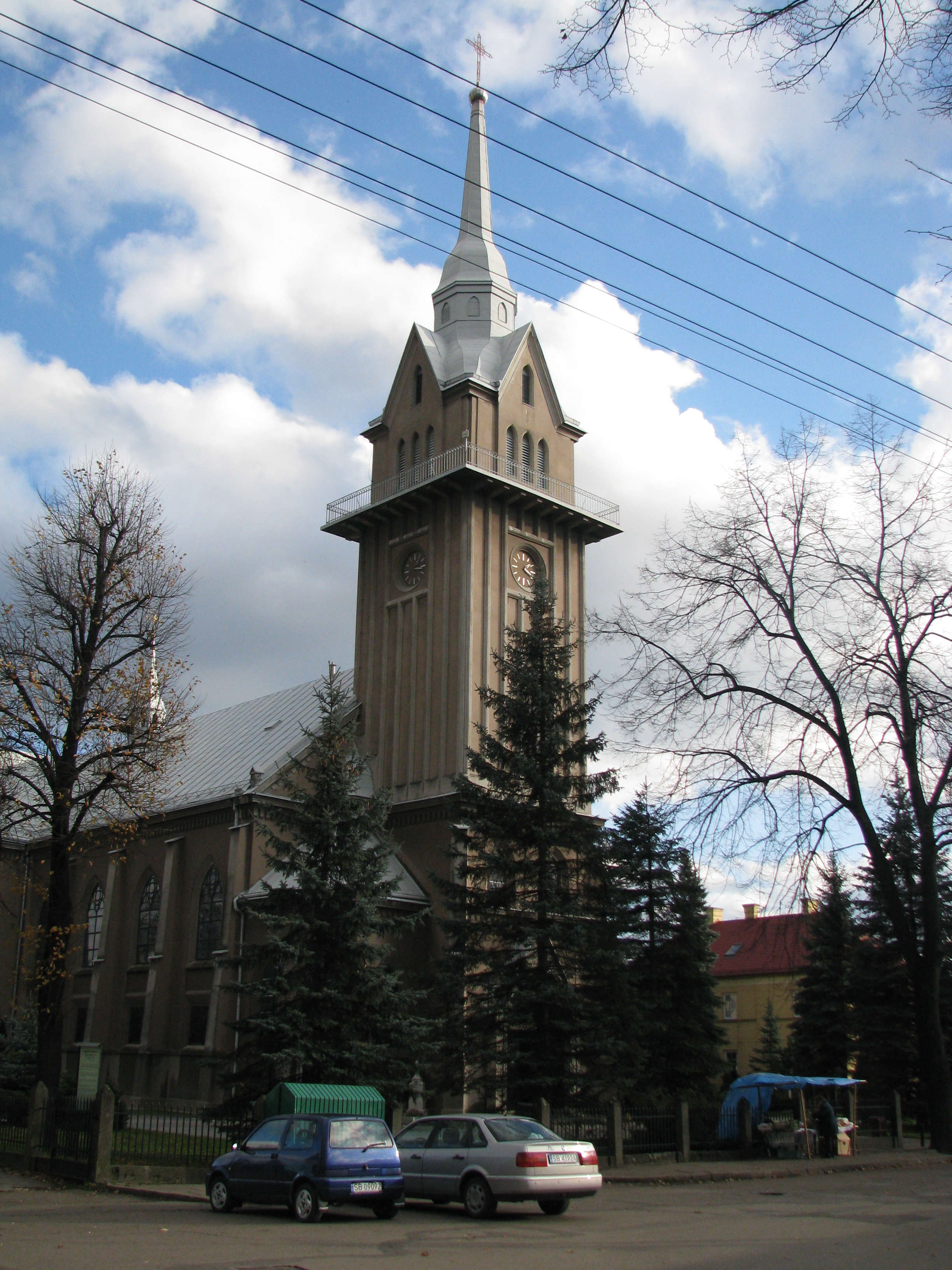 John the Baptist street in Komorowice (Bielsko-Biała), Poland